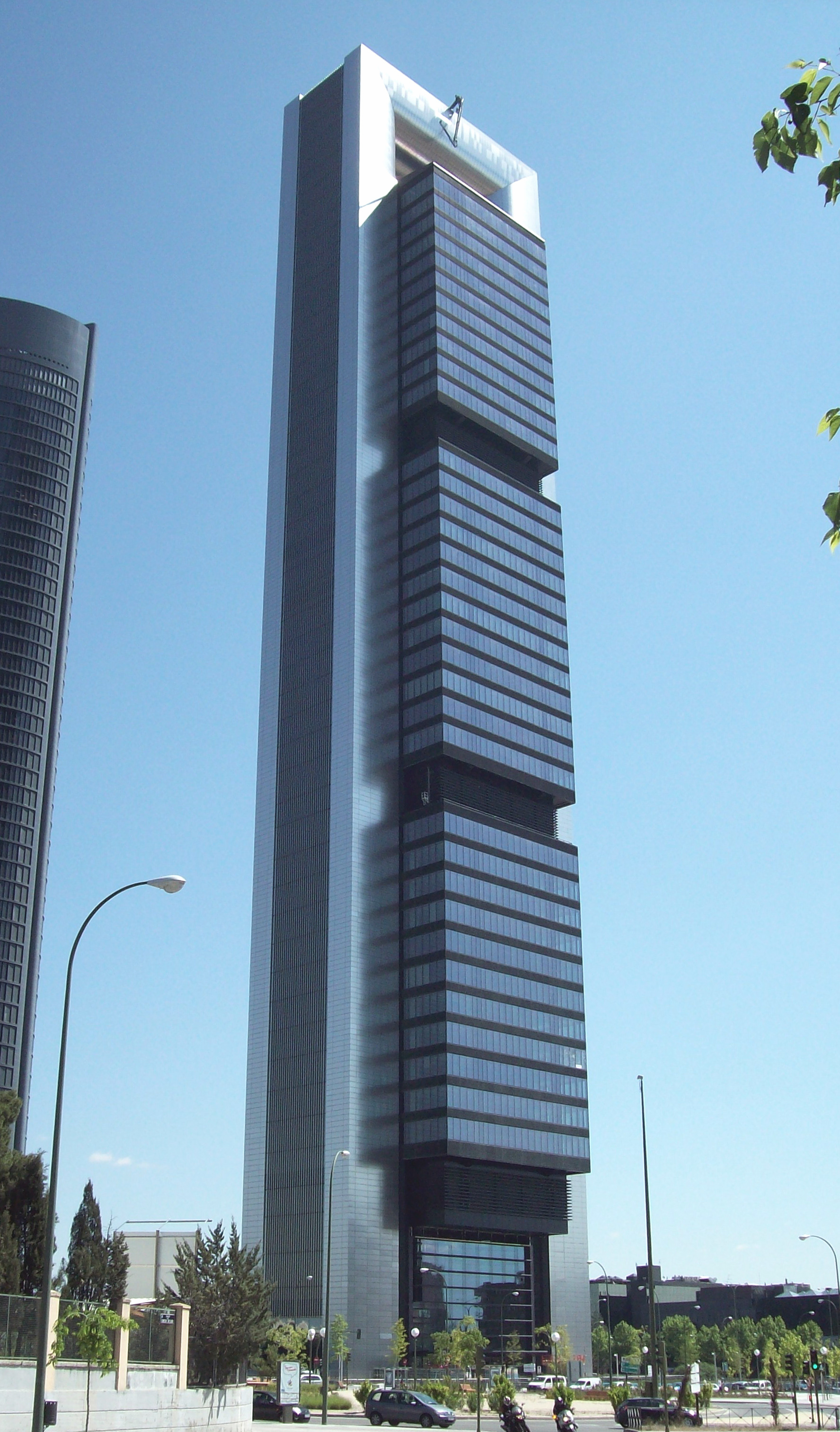 View, from the south-west angle, of Torre Caja Madrid, in Cuatro Torres Business Area (Madrid, Spain).